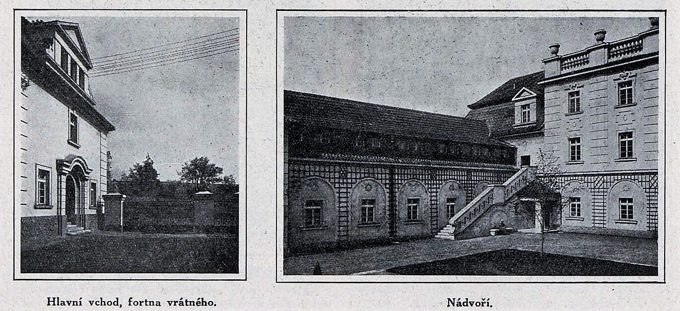 Prague suburb 1925, Jenerálka